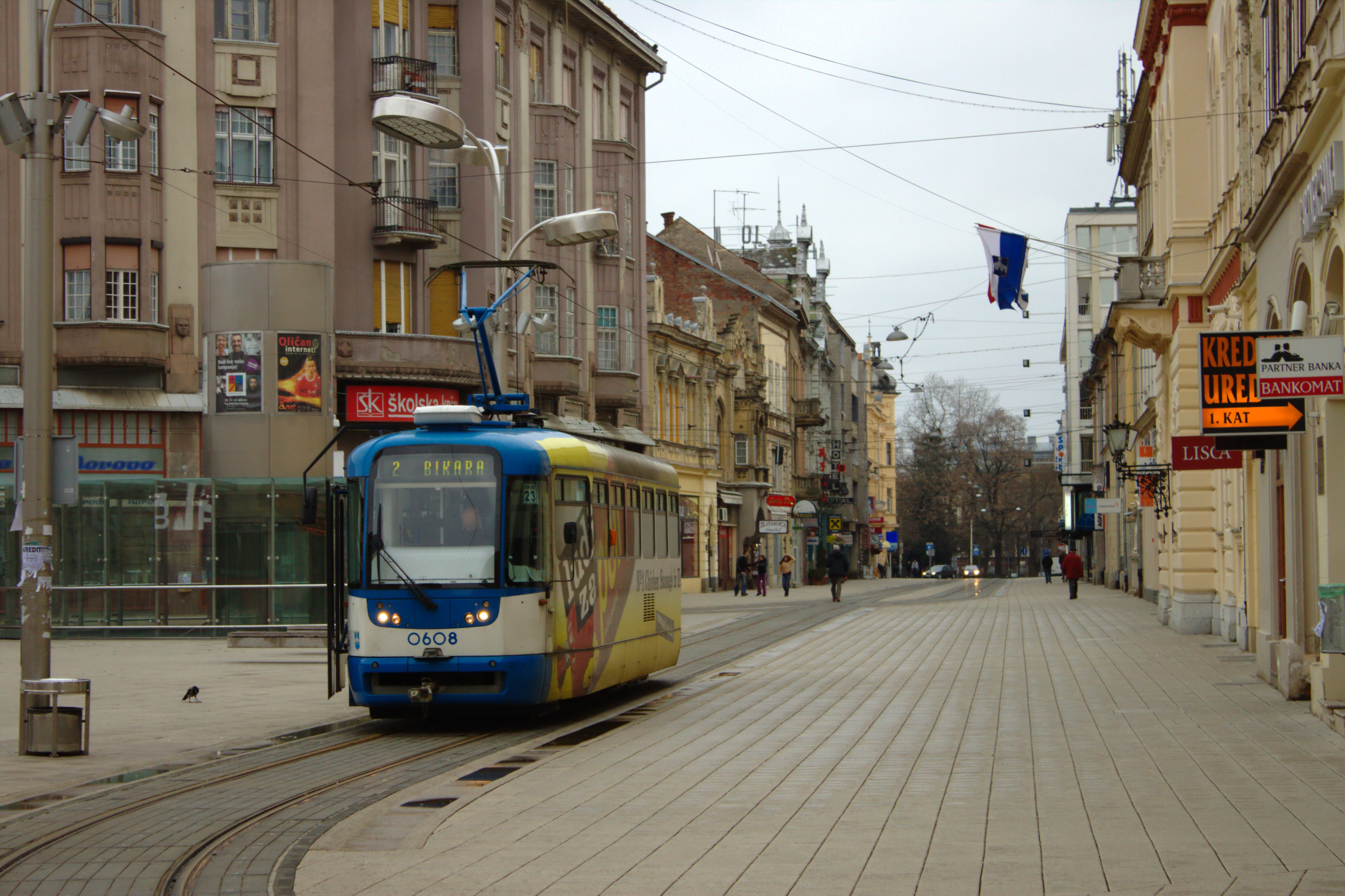 Two Tatra T3R.PV trams at Ante Starčeviće square; Osijek, Croatia